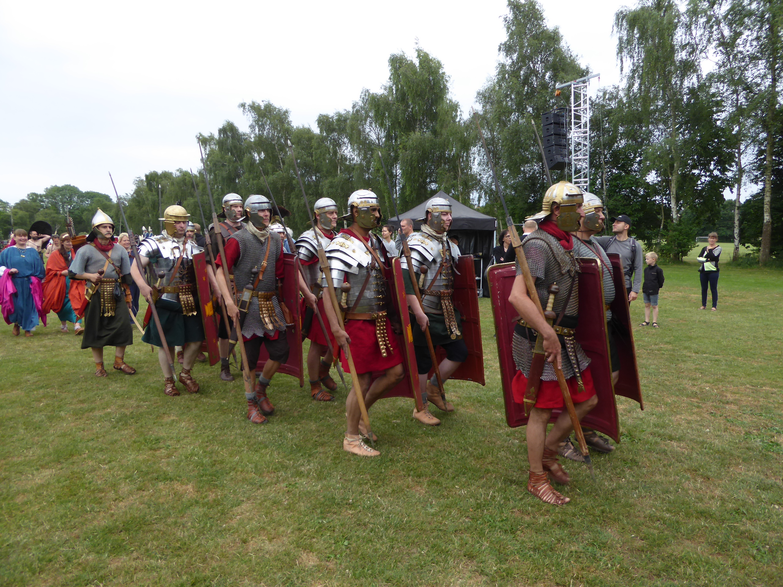 Krigshistorisk Festival (War Historical Festival) in Rødovre in Copenhagen. Legio VI Victrix Cohors II Cimbria represented the Roman army anno 75.